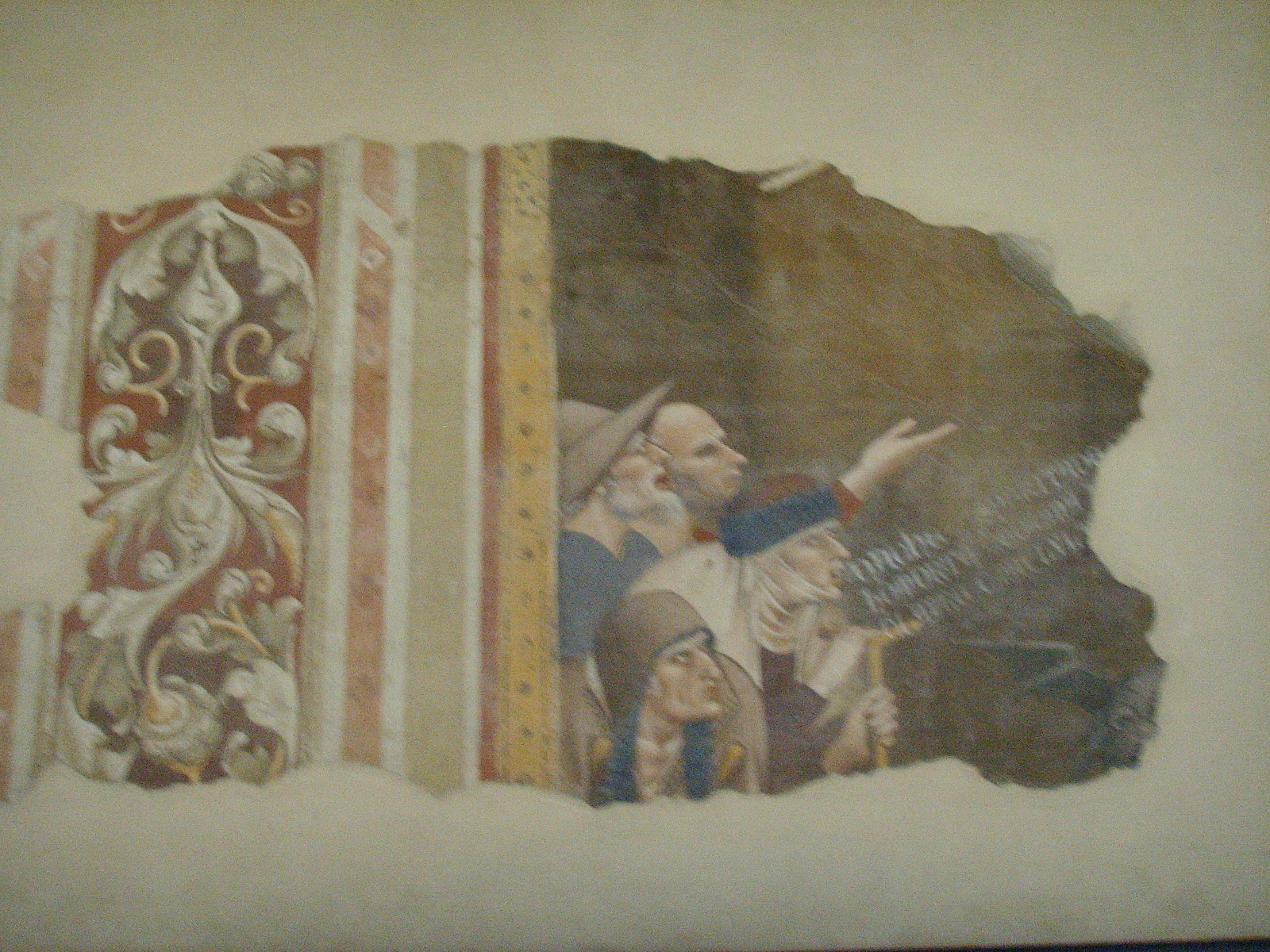 Santa Croce museum, refectory, Orcagna fresco, in Florence, Italy